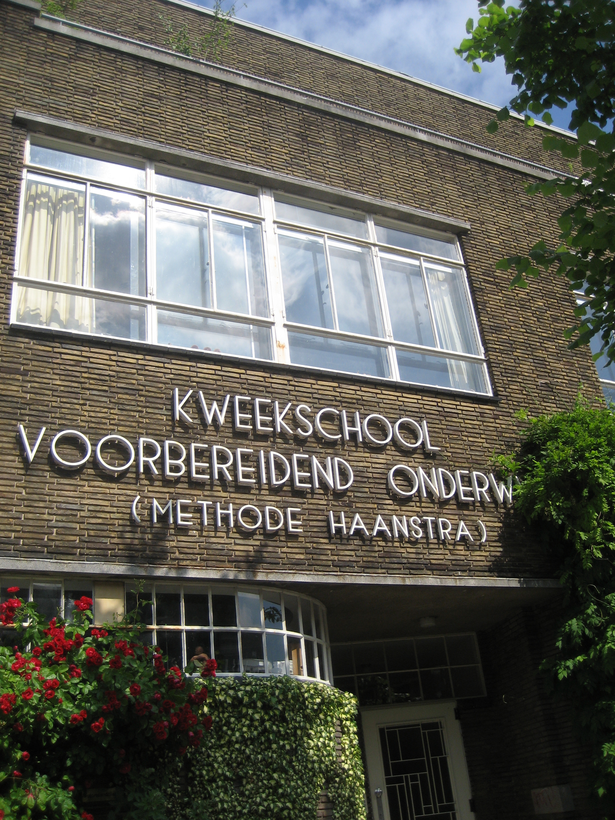 Kweekschool Voorbereidend Onderwijs (Methode Haanstra), Vliet, Leiden (The Netherlands). Education for teachers.